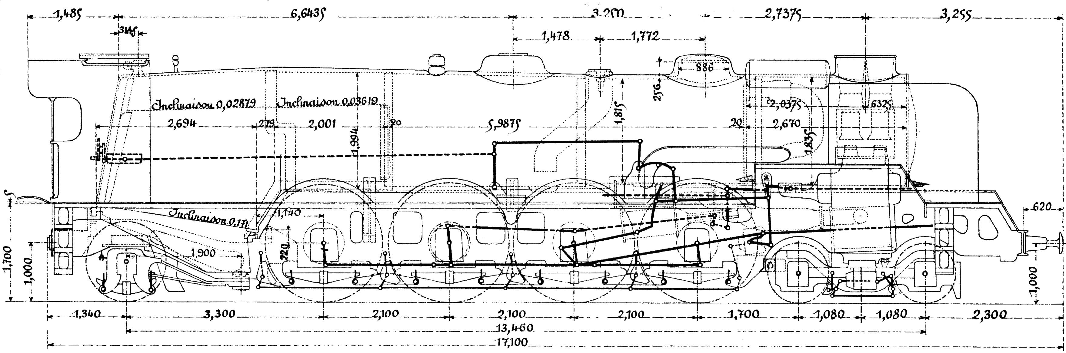 Drawing of locomotive PLM 241 C 1 in 1925.